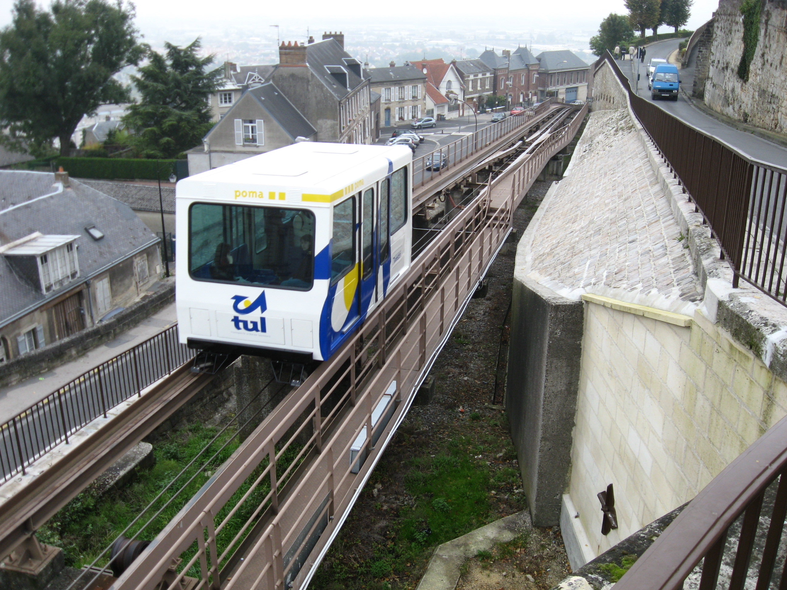 Poma 2000 cabine at the top off the hill